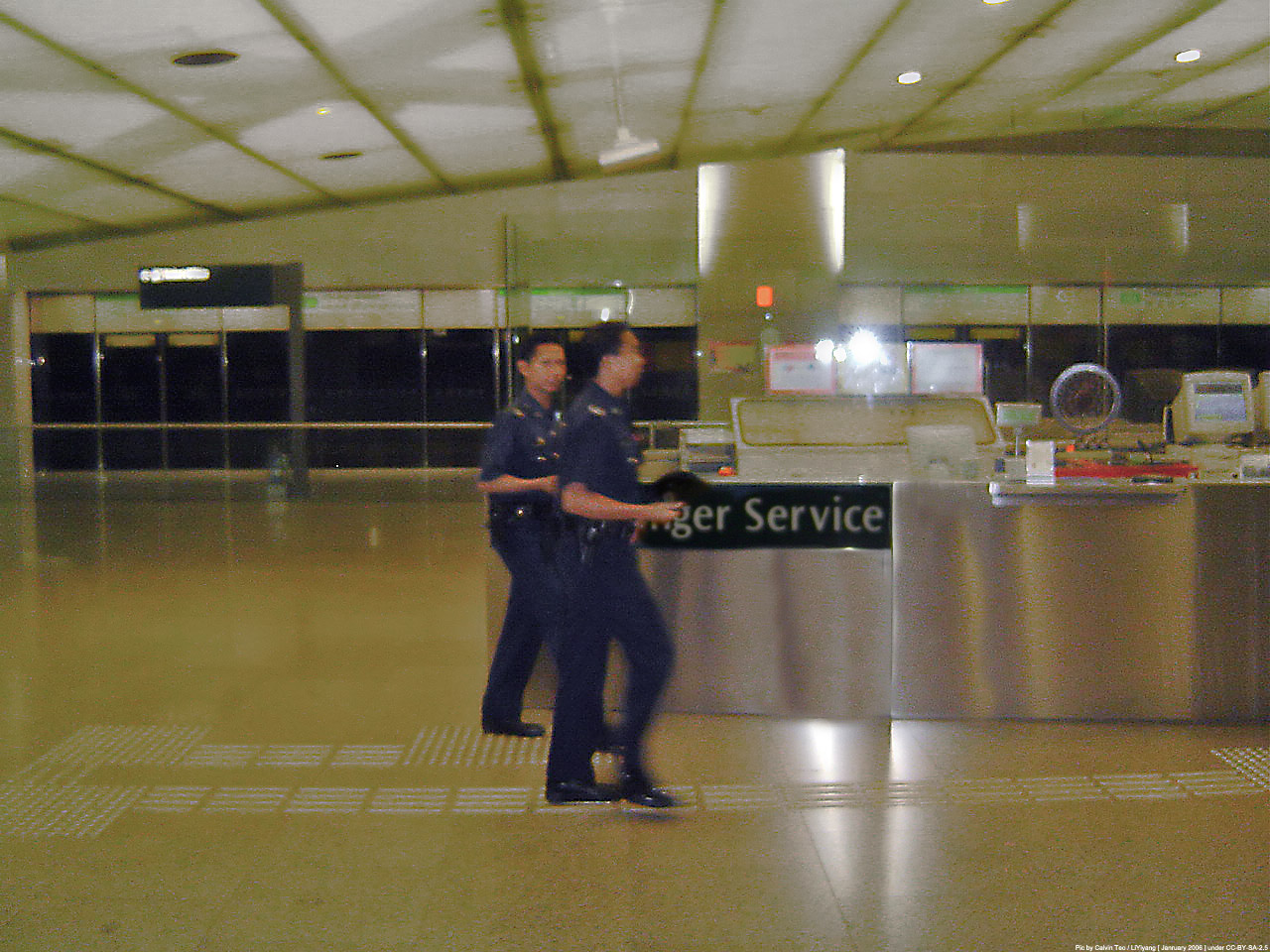 A couple of policemen patrolling the Changi Airport MRT Station, on the lookout for any suspicious characters or packages.